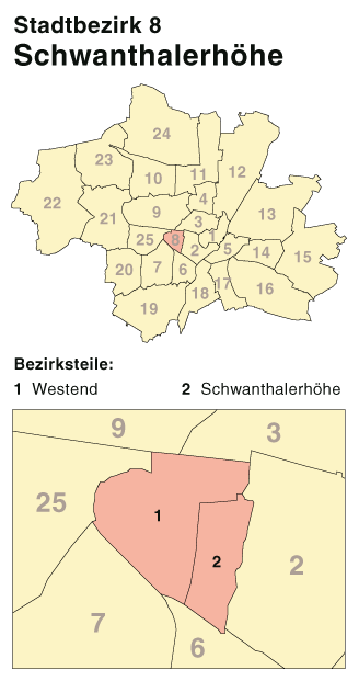 Boroughs of Munich map series